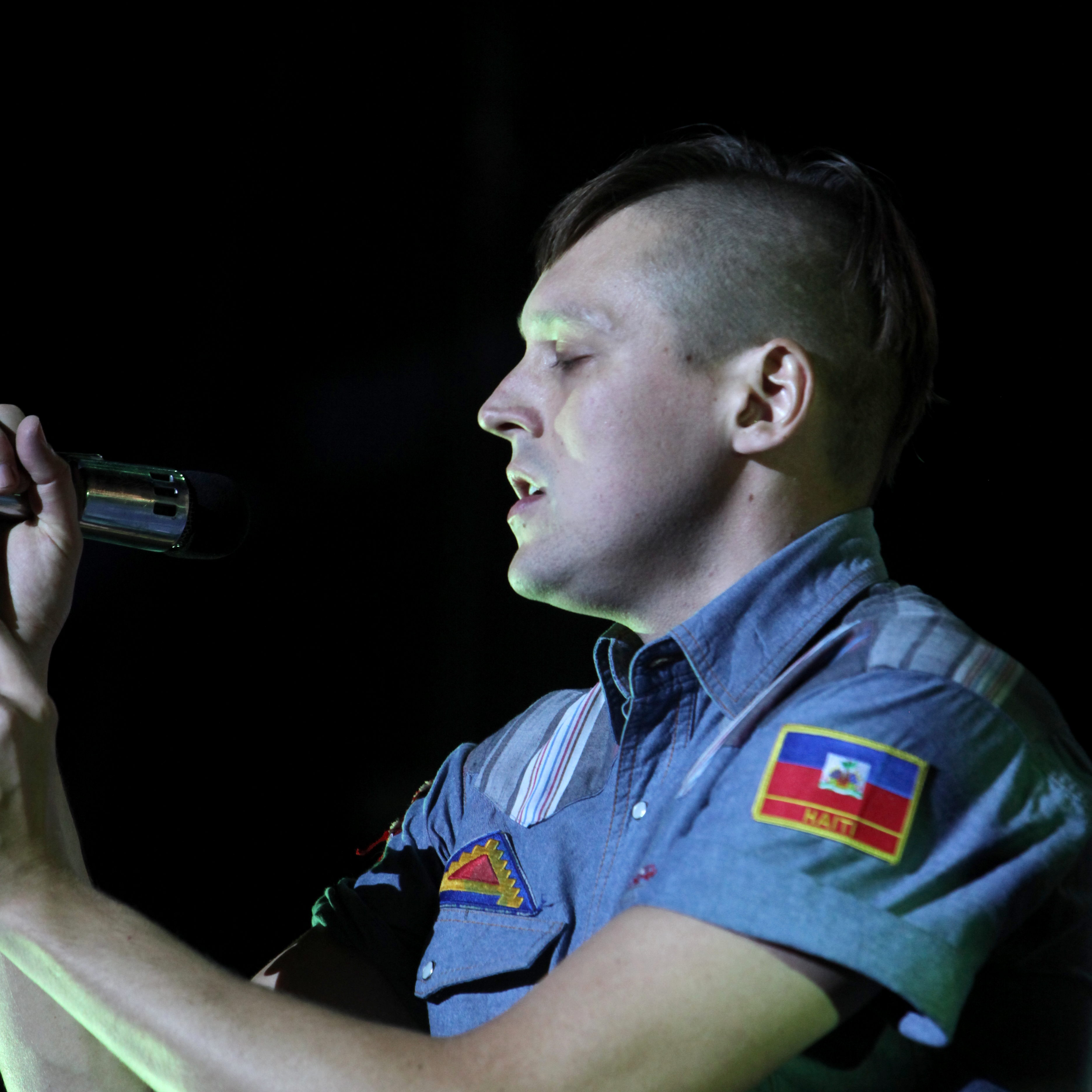 Arcade Fire at the Eurockéennes de Belfort 2011 The making of this document was supported by Wikimedia CH. (Submit your project!) For all the files concerned, please see the category Supported by Wikimedia CH.